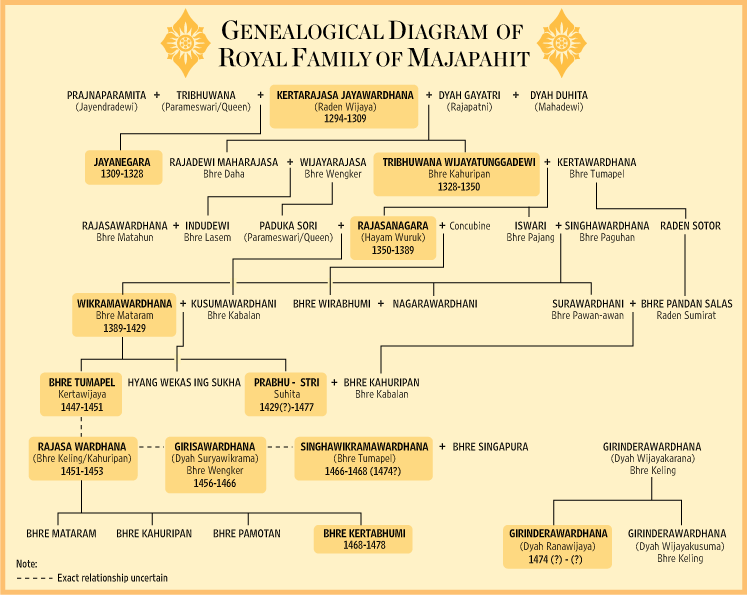 Genealogy of the kings of Majapahit, Indonesia